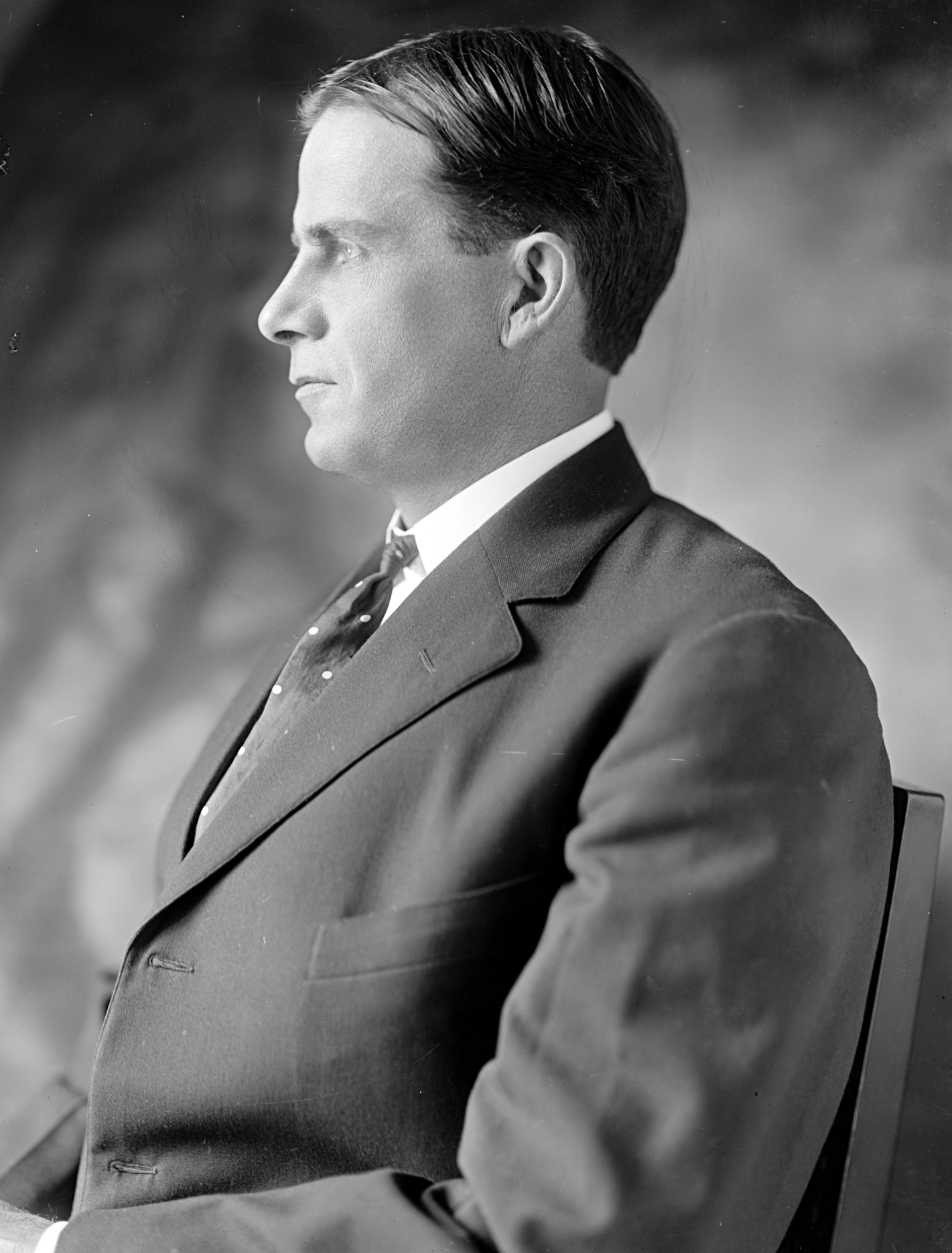 Sam R. Sells, US Representative from Tennessee